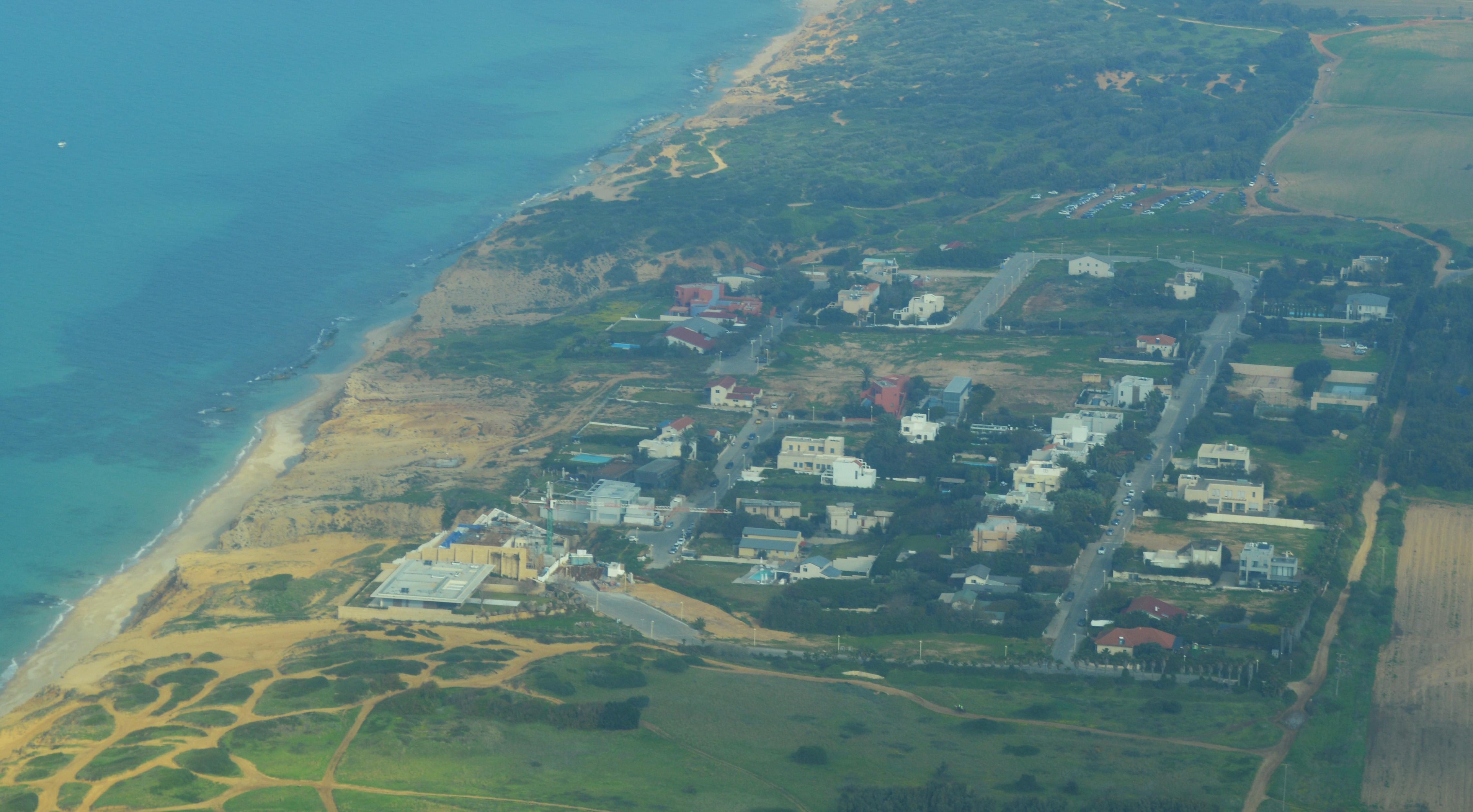 Arsuf Aerial View